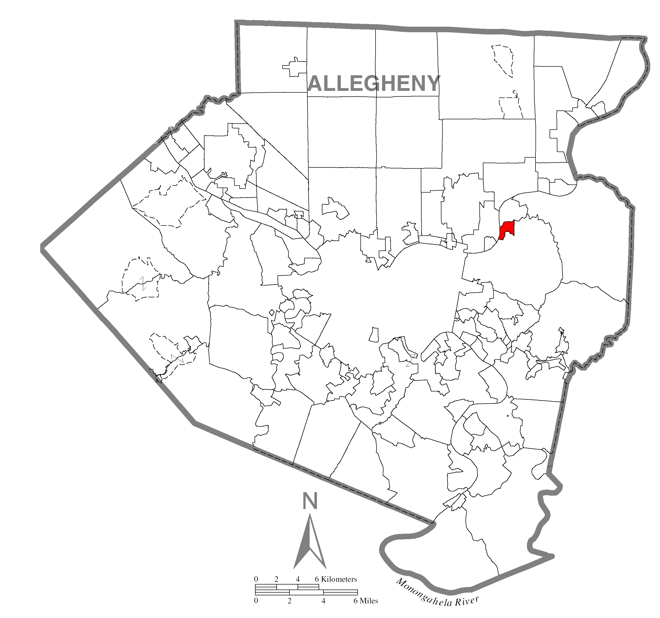 A map of Allegheny County showing Verona, Pennsylvania (alternate) highlighted on the map.